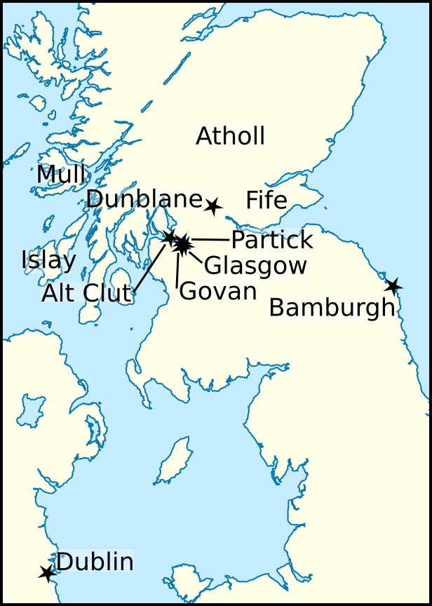 Map for the Wikipedia article concerning Rhun ab Arthgal, King of Alt Clut.